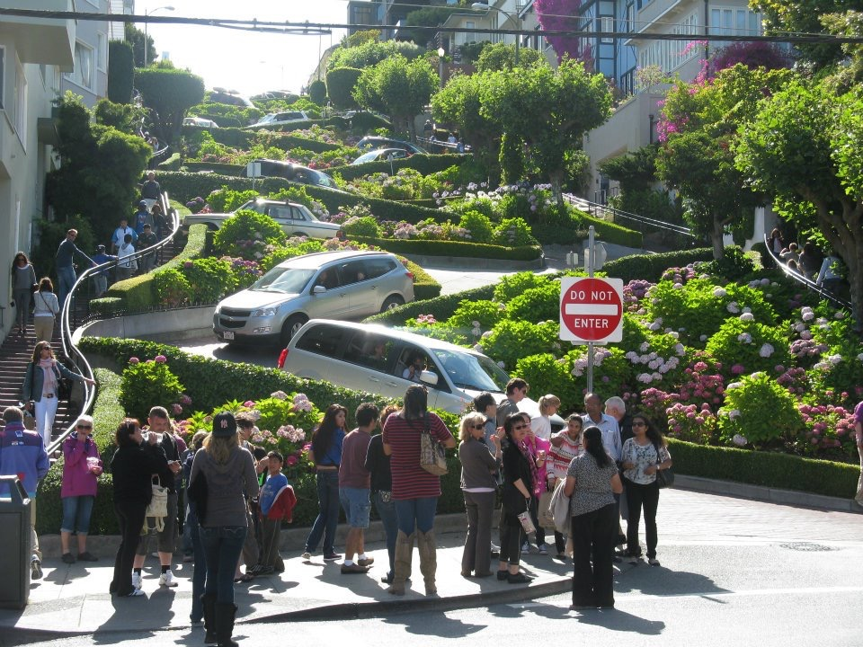 Lombard St